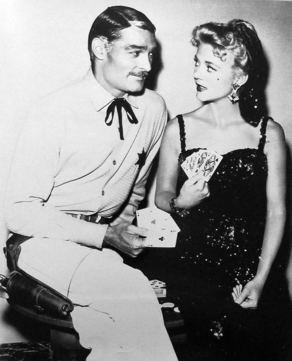 Photo of John Russell and Peggy Castle from the television program Lawman.